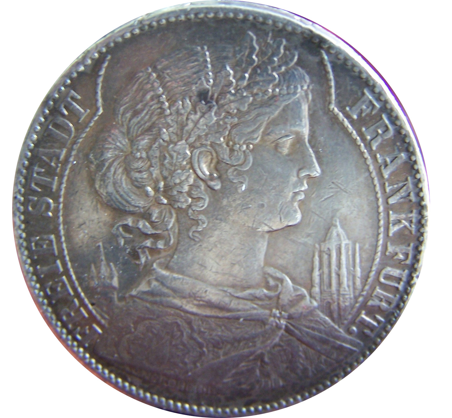 Avers from the Vereinstaler Frankfurt Year 1858